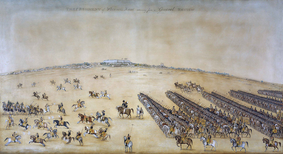 'The 1st Regiment of Skinner's Horse returning from a General Review'. Watercolour on European paper, by Ghulam Ali Khan, Delhi, 1828. James Skinner's cavalry regiment was famous for its horsemanship and skill with weapons, which can be seen being demonstrated here. The manoeuvres of the cavalry in the left foreground are based on the illustrations to Skinner's own personal manual of cavalry manoeuvres. The Persian inscriptions on the painting explain what is represented. It shows the town of Hansi, Haryana and the cantonment of the cavalry, together with a 'Likeness of Colonel James Skinner Sahib Bahadur and Mr William Fraser Sahib Bahadur' (his second-in-command) riding out at the head of the regiment. The Indian officers and other ranks wear the famous yellow Mughal style kurta, reminiscent of the saffron dress of Rajput soldiers, while the British officers wear typical British light cavalry uniform. National Army Museum Collection, London: NAM Accession Number 1956-02-27-2